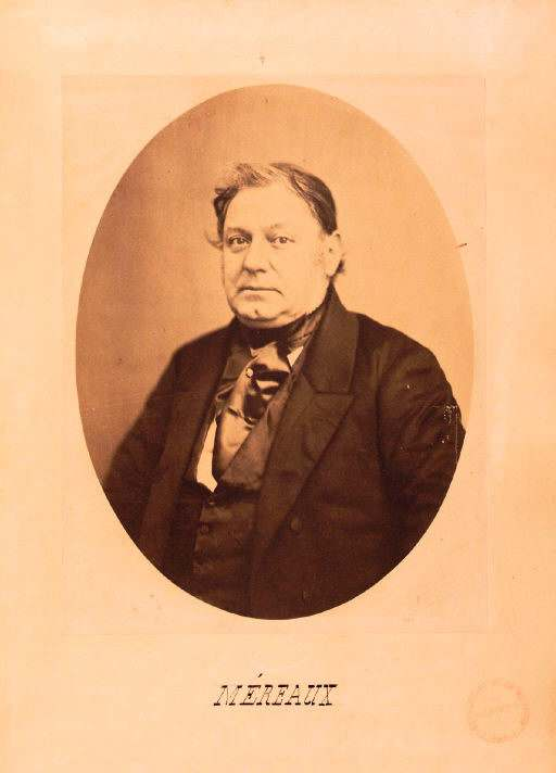 Photograph of Jean-Amédée Le Froid de Méreaux.